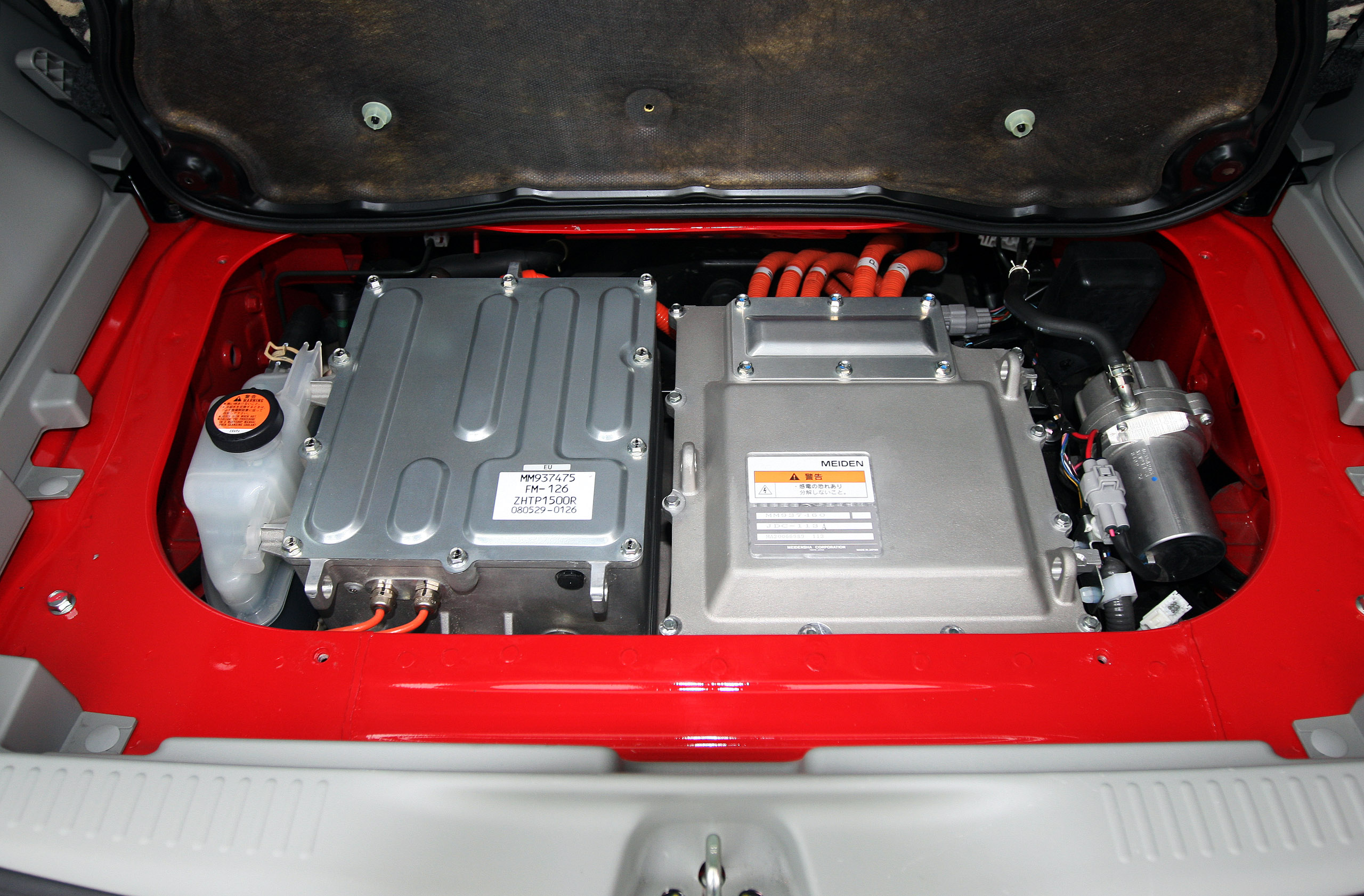 Motorsport Japan 2008: Mitsubishi i MiEV, electric engine room (located under the rear trunk room)